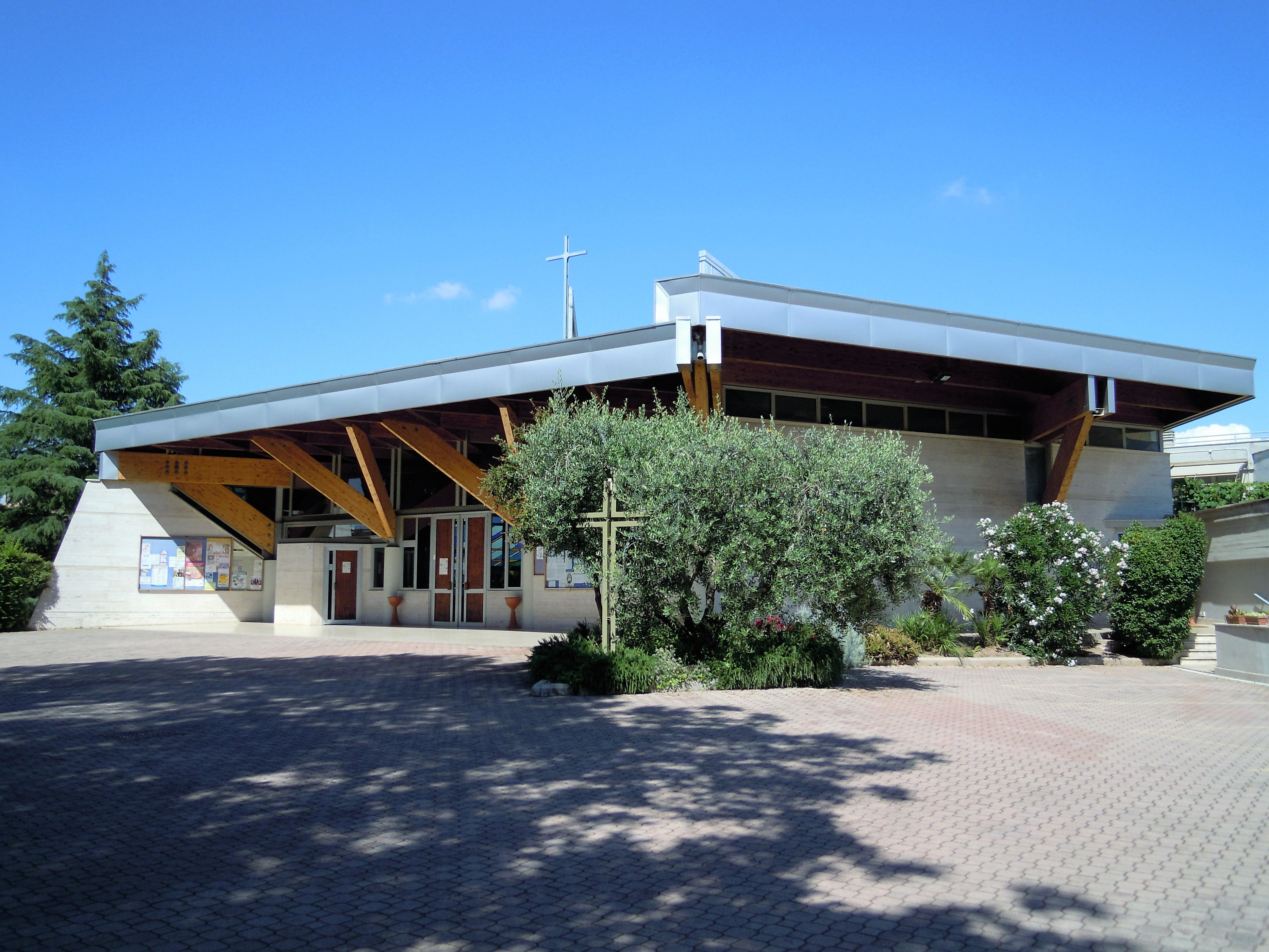 Rome, church of St. Giovanna Antida Thouret - Fonte Meravigliosa, Giuliano-Dalmata quarter